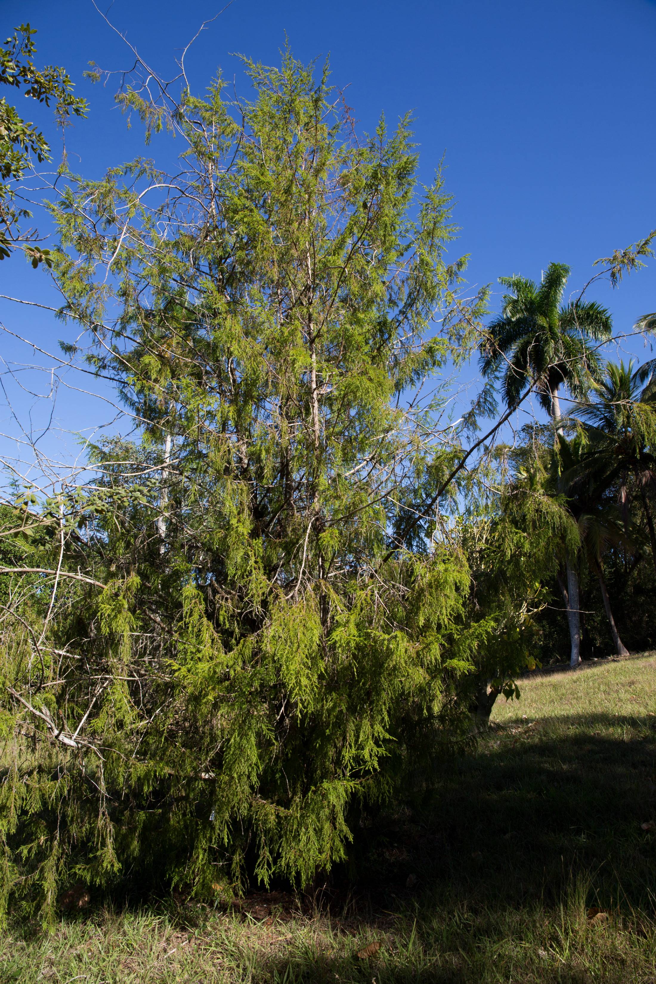 Juniperus saxicola in the botanical garden Cupaynicú in Guisa, Granma, Cuba